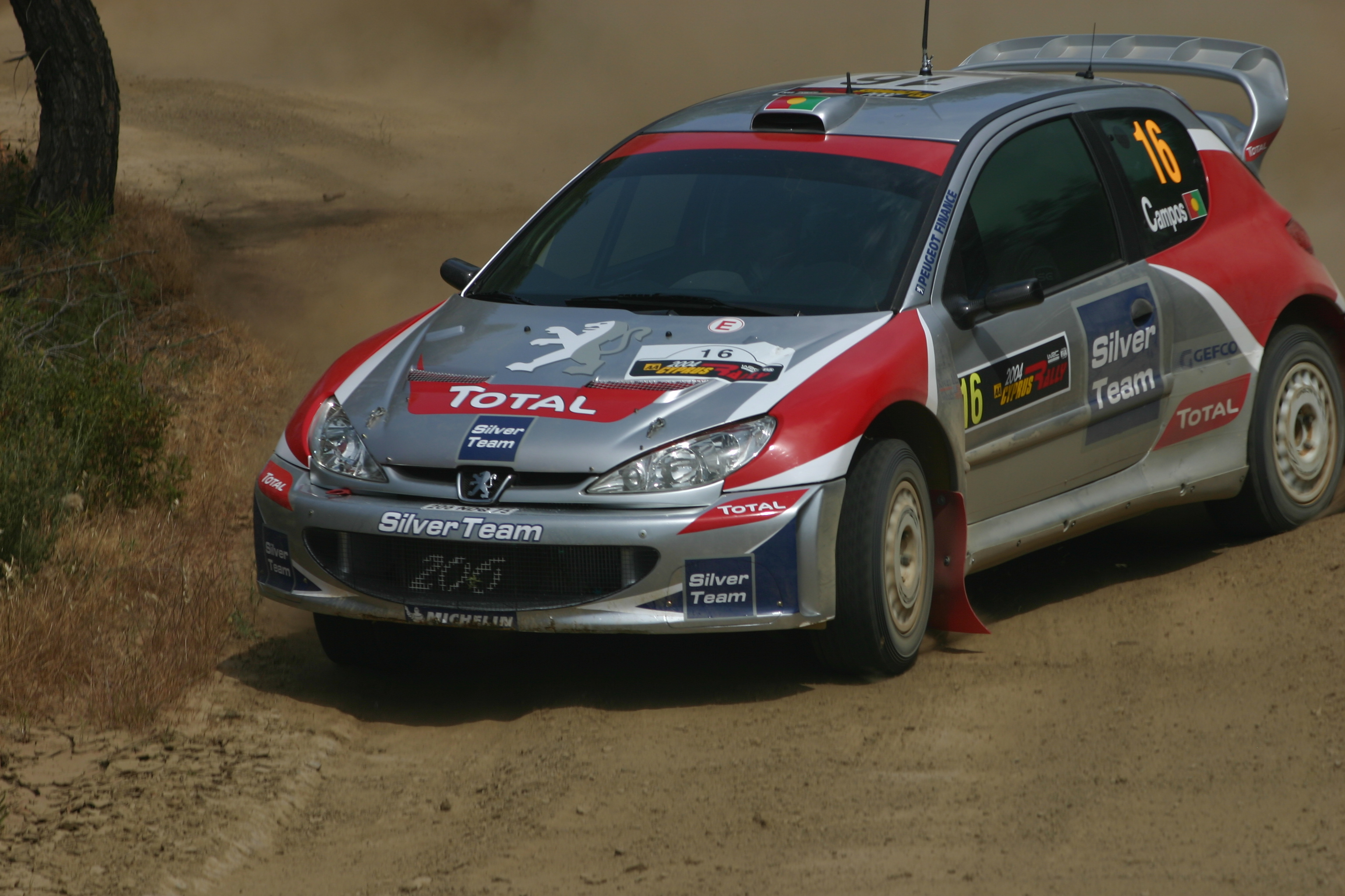 Miguel Campos driving his Peugeot 206 WRC during the 2004 Cyprus Rally.